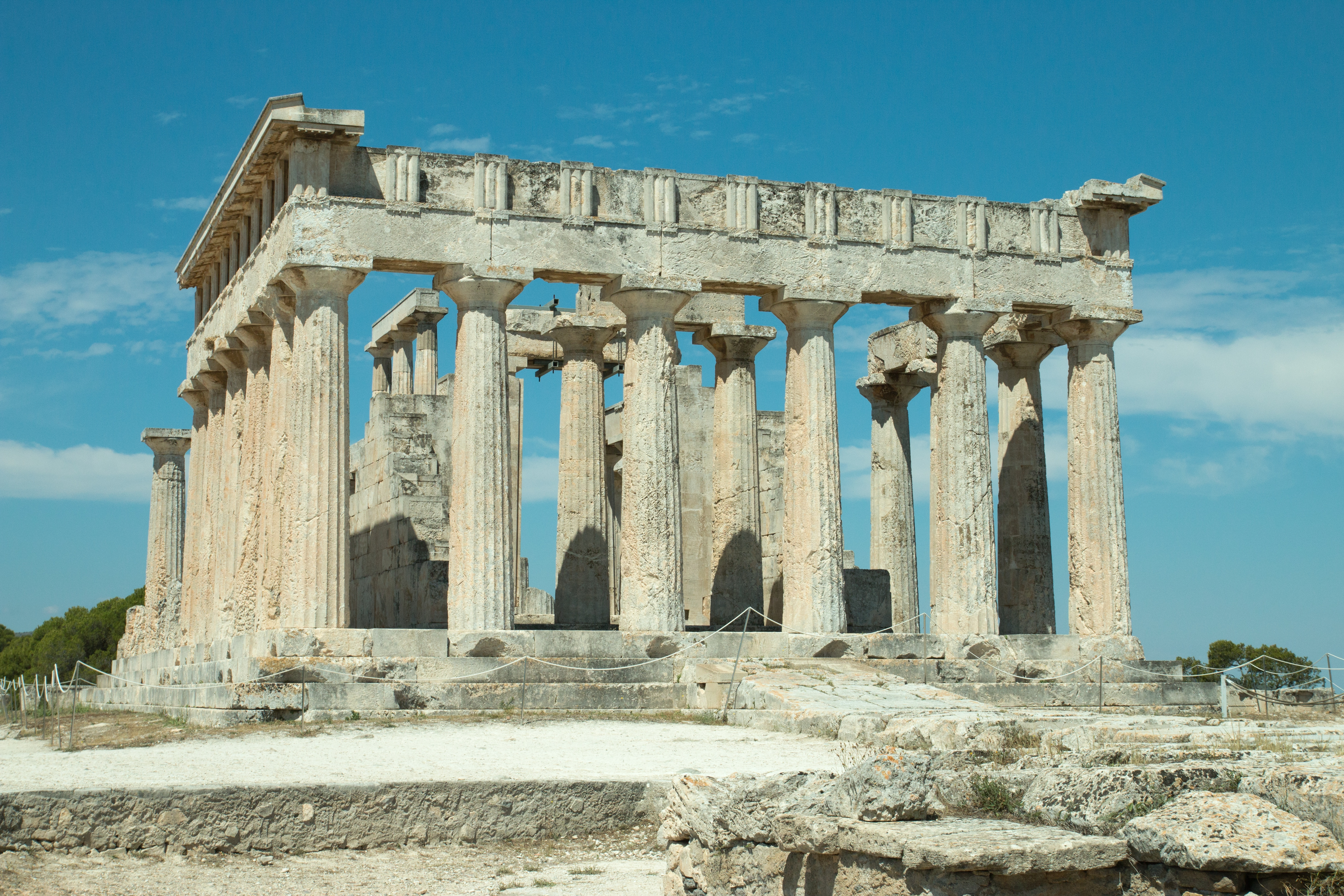 Temple of Afaia, western facade. Aegina.